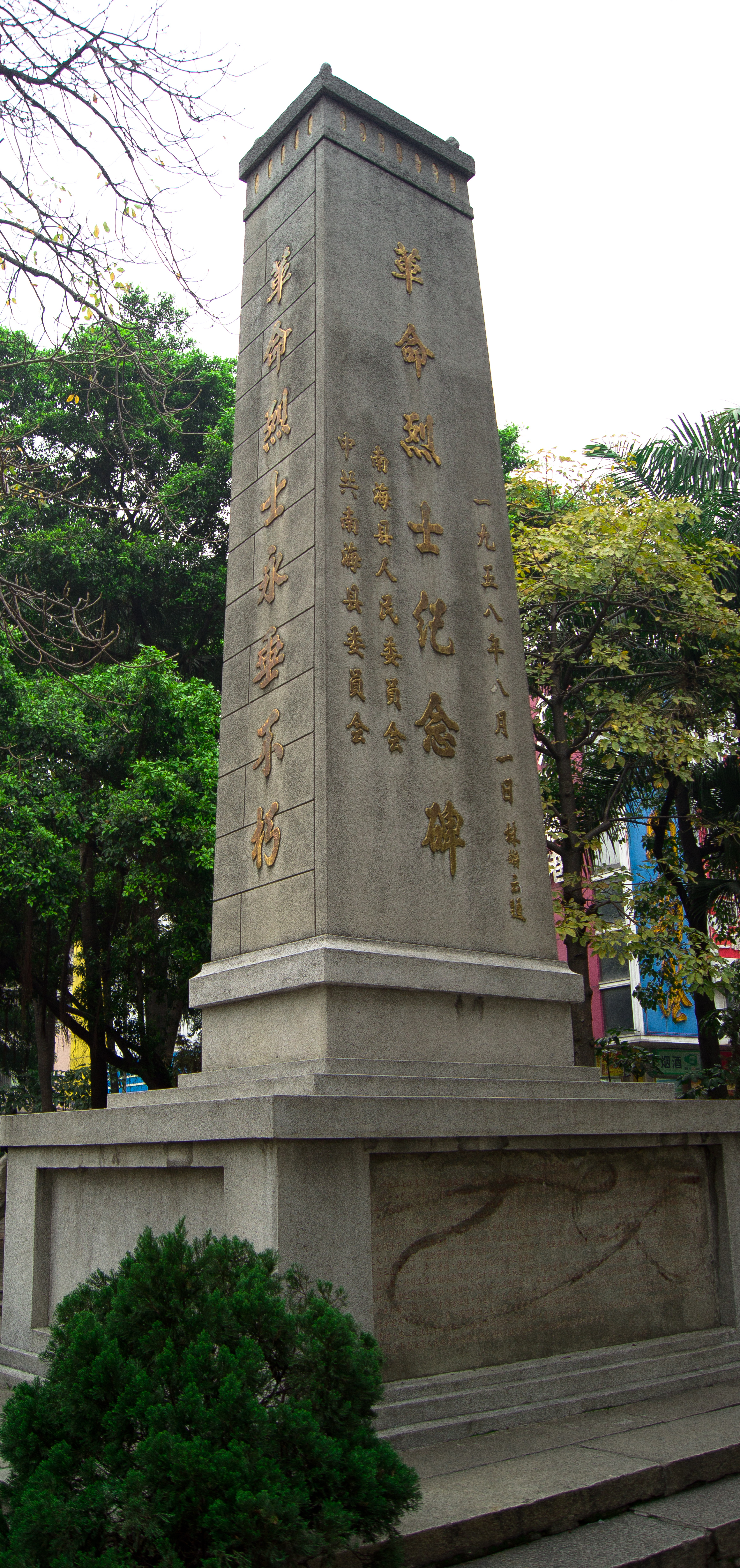 Martyrs' Monument in Dali Park, Dali Town, Nanhai District, Foshan, Guangdong, China.